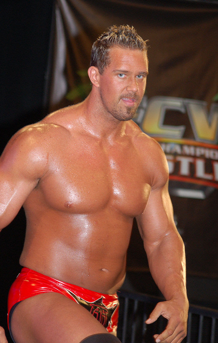 Photo I took of Jackson Andrews in Tampa Florida at the Florida Championship Wrestling arena on Oct. 14th, 2010.